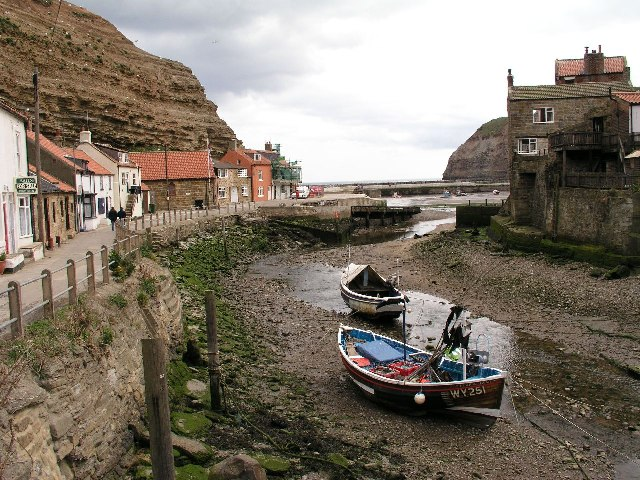 Staithes. Boats in Staithes Harbour.